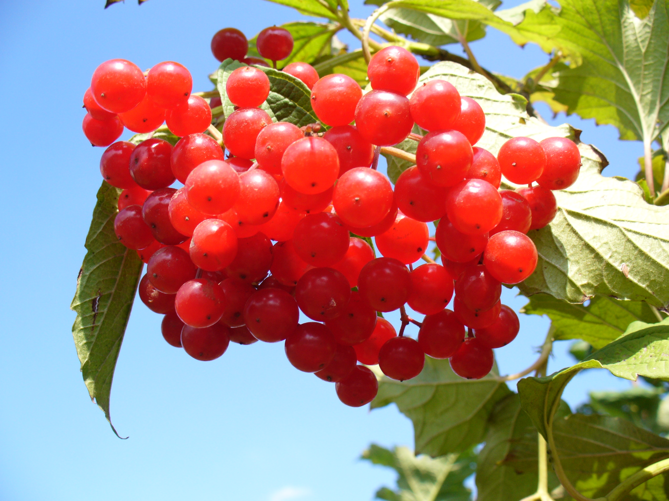 High cranberry, European dogwood, Marsh elder, Gatten-tree, Love-roses, May rose, Common snowball, Squawbush, Cranberry tree, Guelder-rose